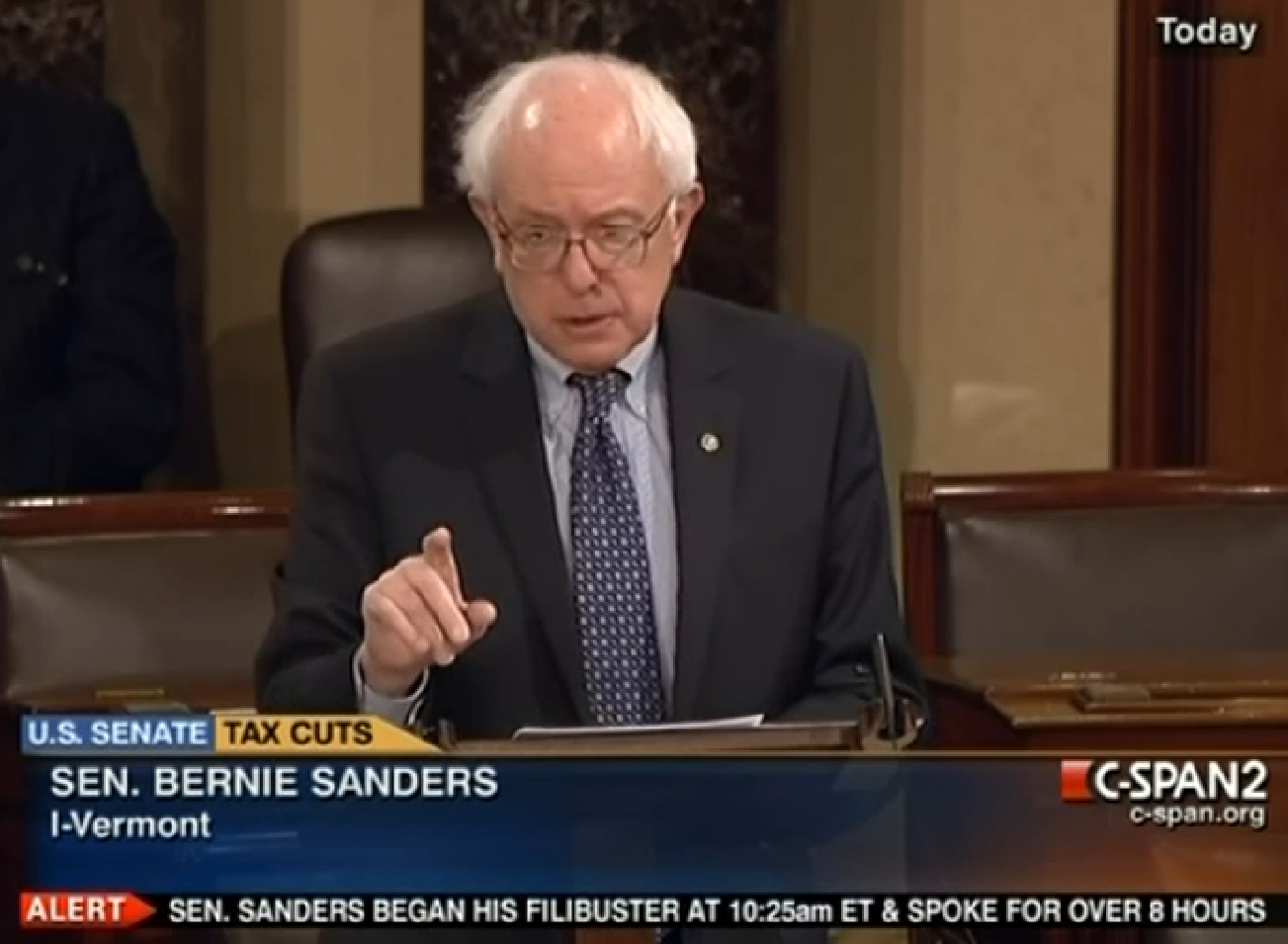 Senator Bernie Sanders Engaging in a Filibuster